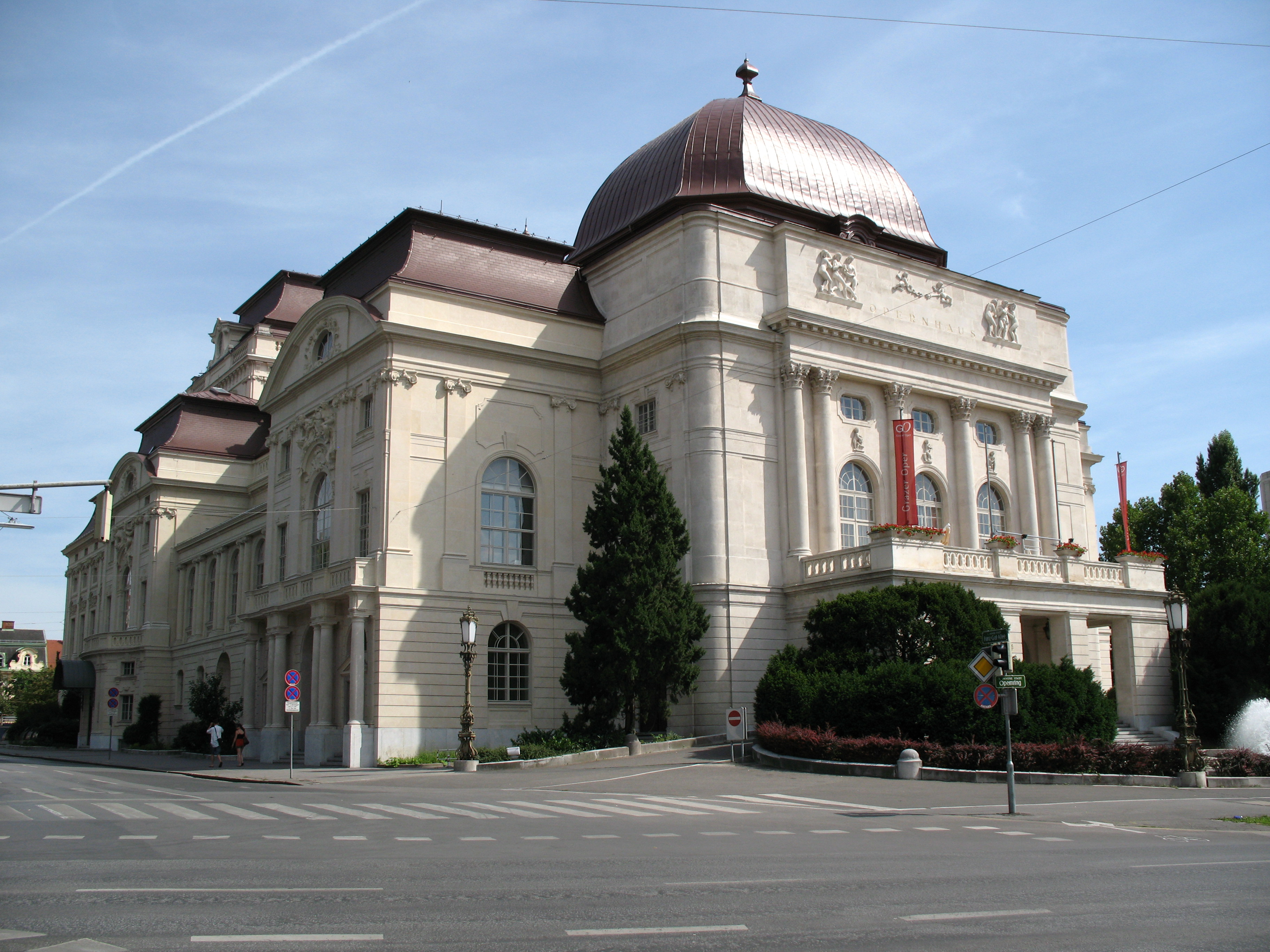 Opera House, Graz, Austria